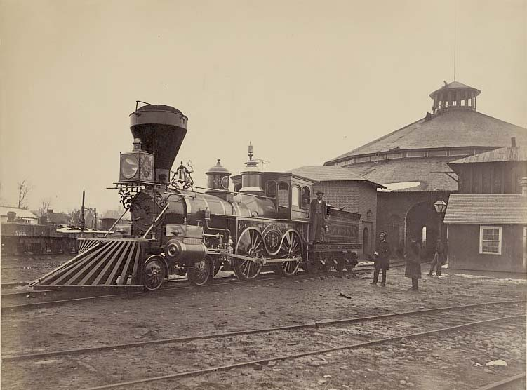 It is the Steam Locomotive in Alexandria, Virginia. This picture was taken in 1862. Flickr data on 2011-08-13 Tags: Old photo, 1862, train, Public Domain License: CC BY-SA 2.0 User: paukrus Ruslan